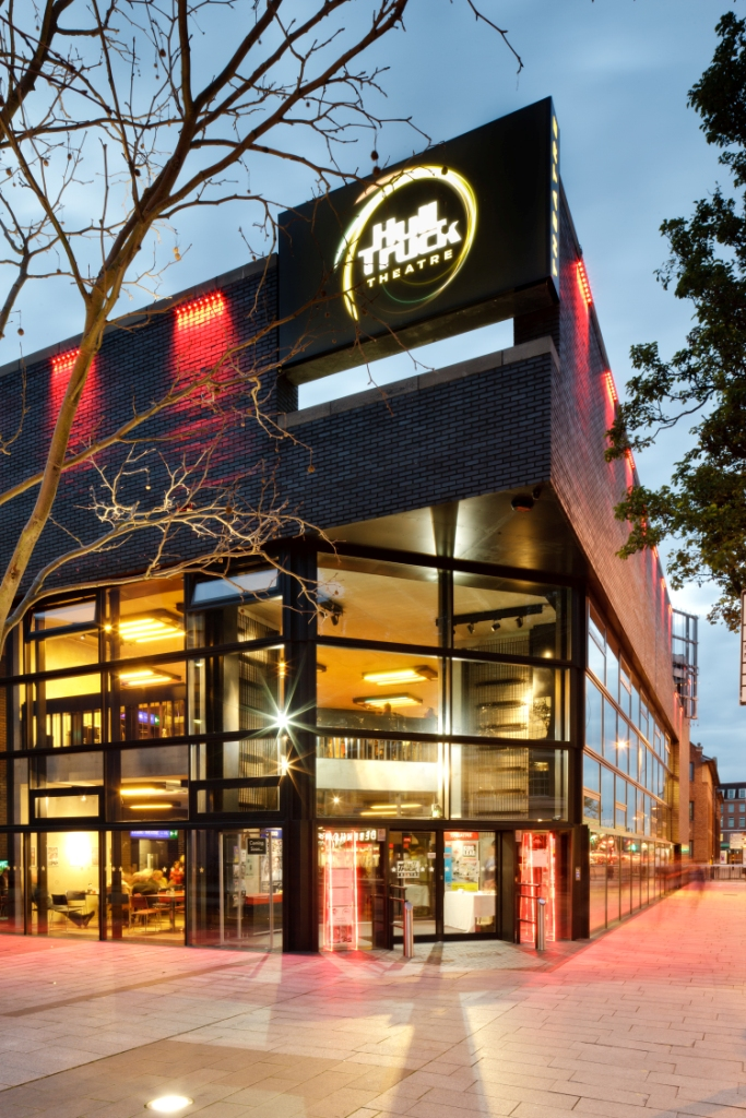 The Hull Truck Theatre building situated on Ferensway, Hull.